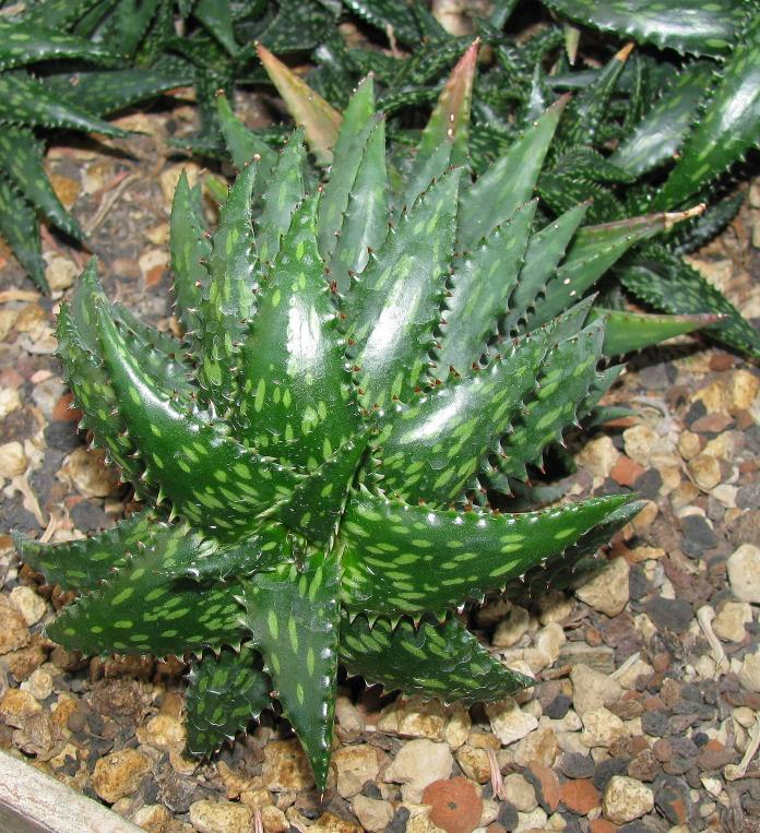 Aloe jucanda, Botanical Garden heidelberg